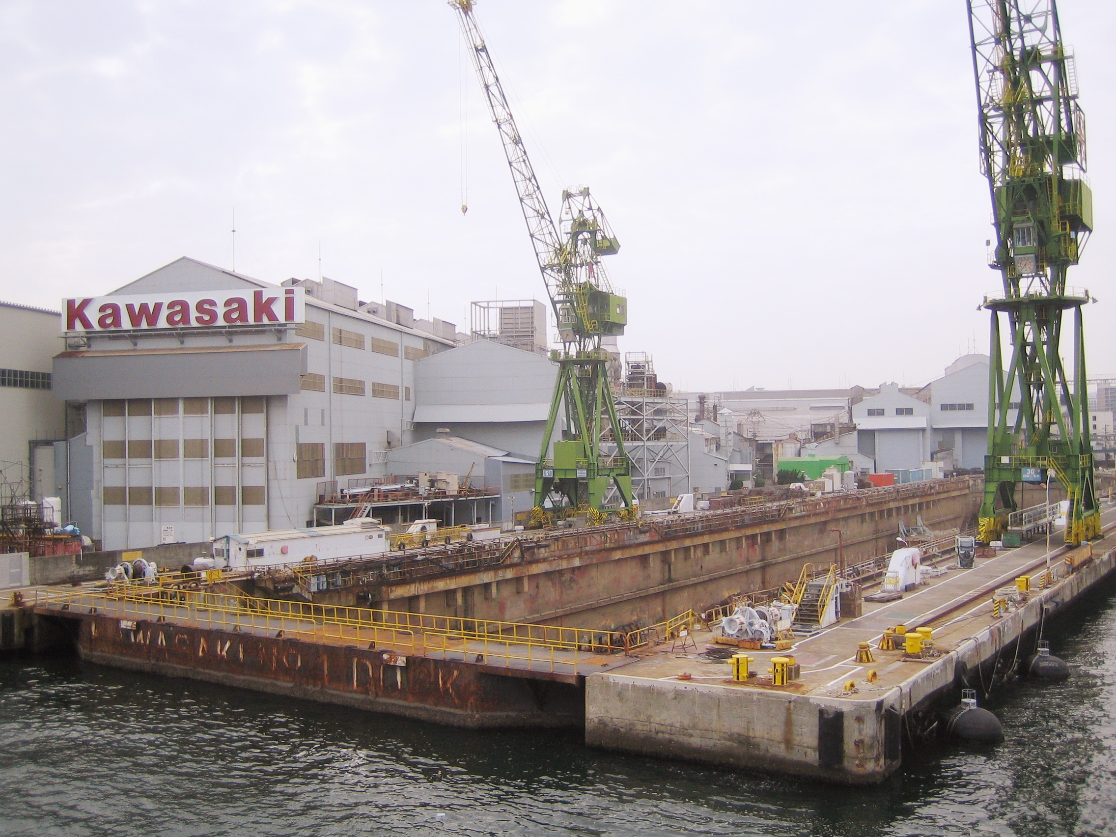 Headquarters of Kawasaki Shipbuilding Corporation , at Chuo, Kobe, Hyogo, Japan